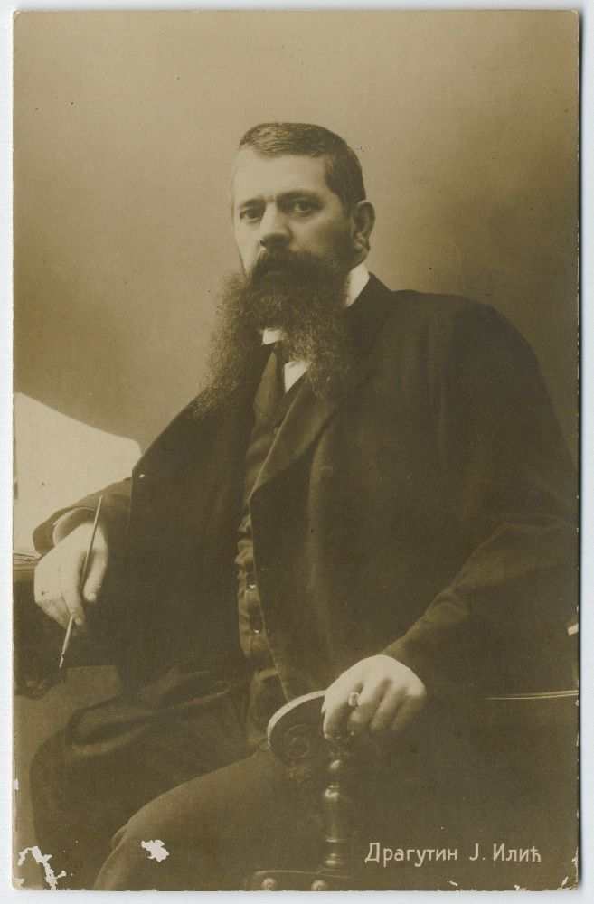 Dragutin J. Ilić (1858-1926), Serbian writer and politician. Photo by Milan Jovanovic (before 1901)